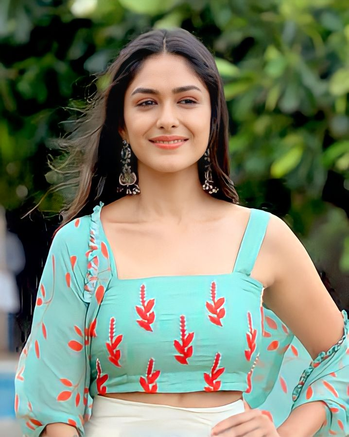 Mrunal Thakur during promotion of Super 30